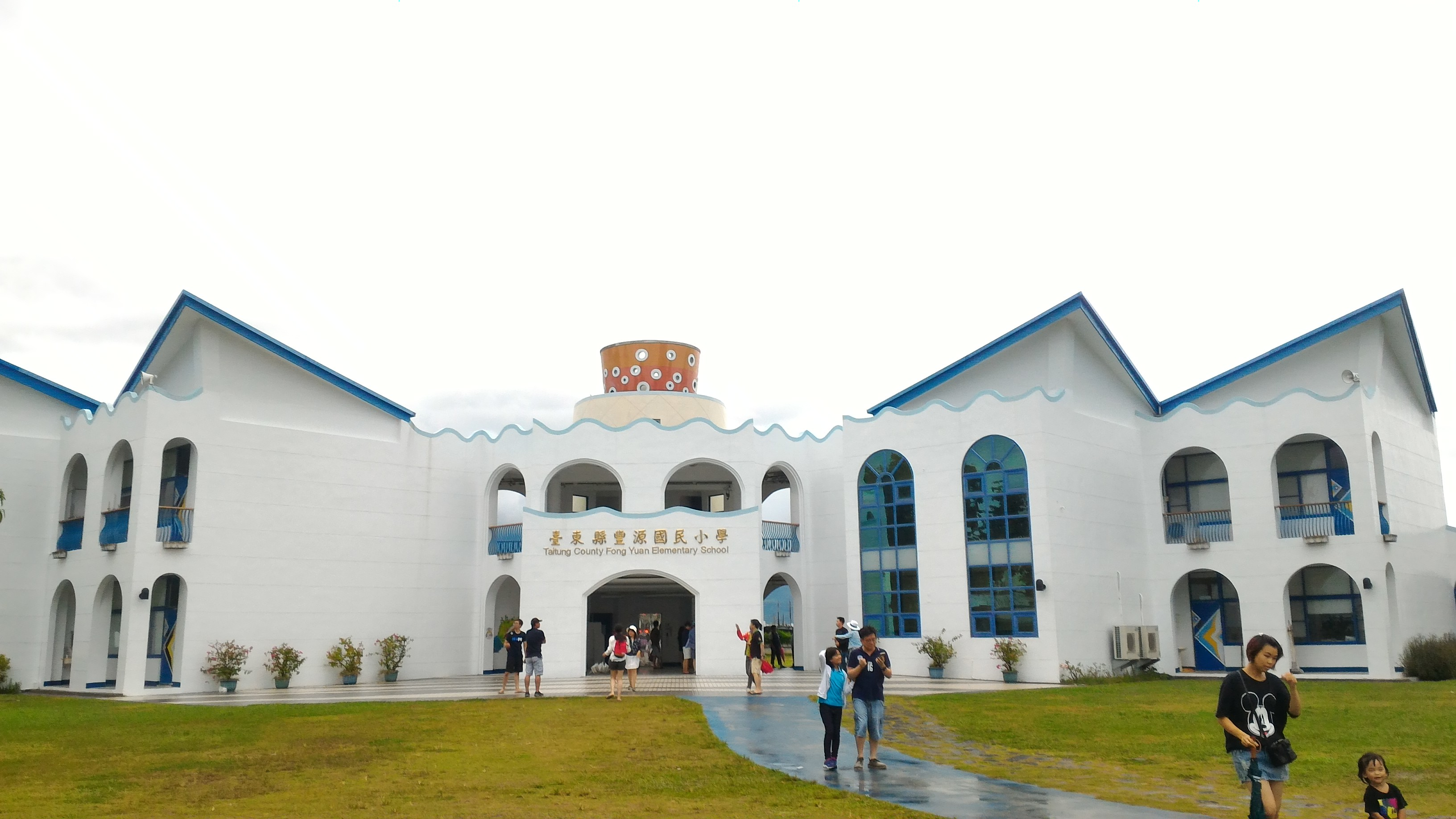 Tourist visiting Taitung County Fengyuan Elementary School